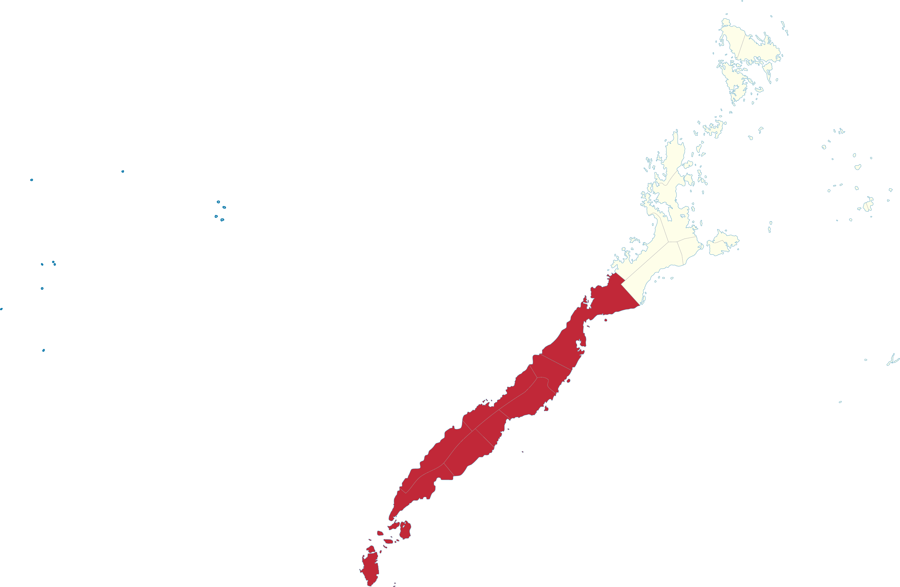 Location of 2nd Legislative district of Palawan, Philippines